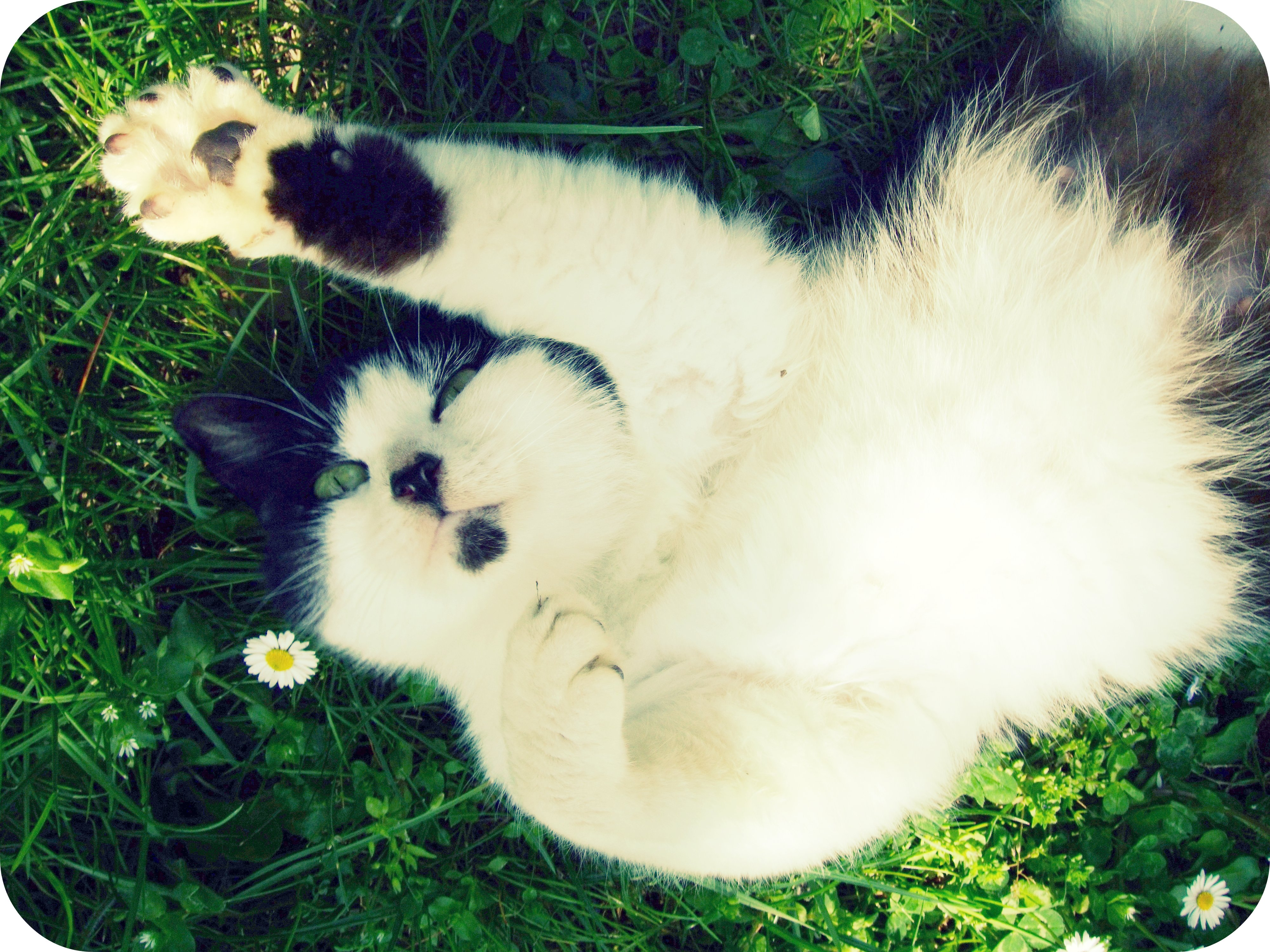 Pucipuci ha partorito stanotte! Auguri! Pucipuci gave birth to her pups tonight! The best wishes for her!